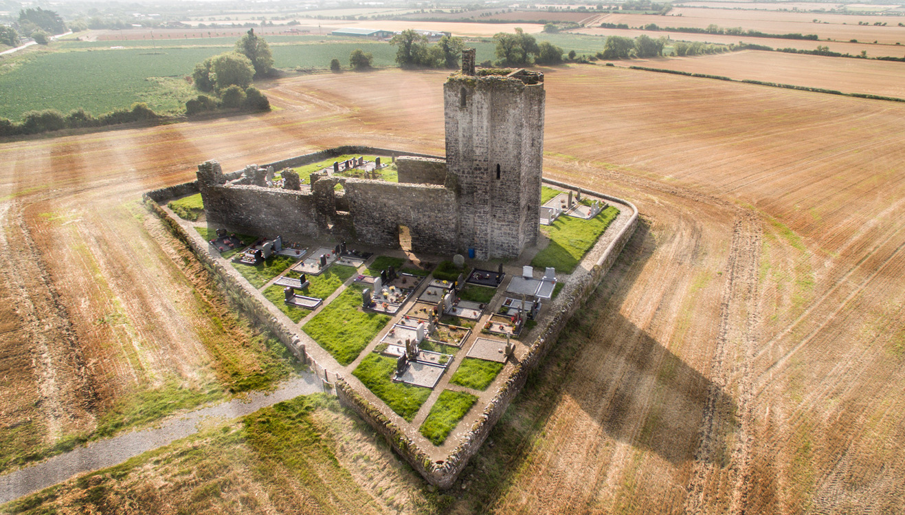 Baldongan Church Tower